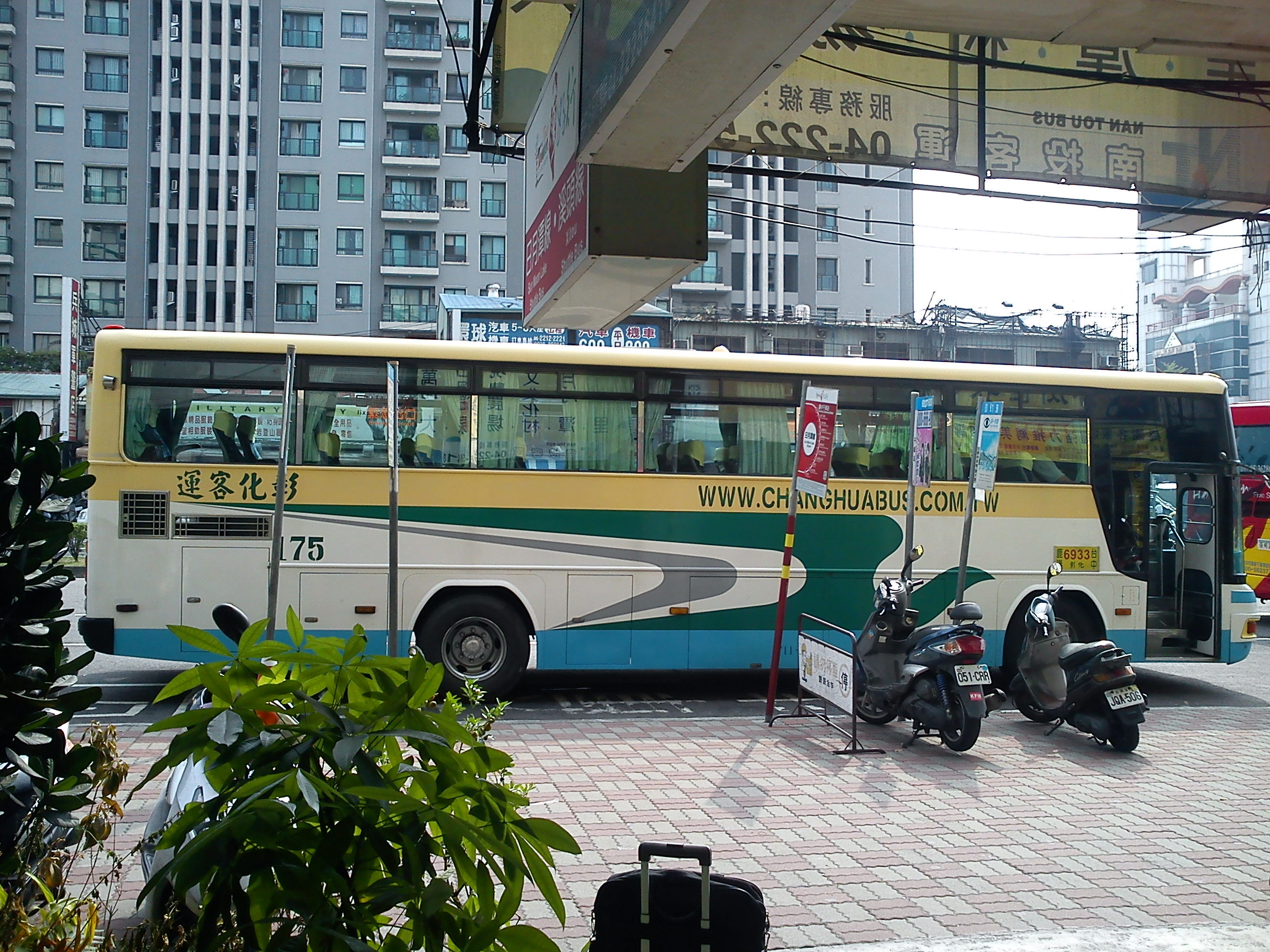 CHANG HUA BUS Taichung station on Shuangshi Rd.